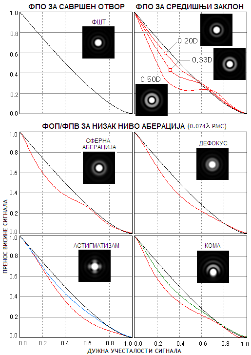 Примери функције оптичког преноса за низак ниво аберација